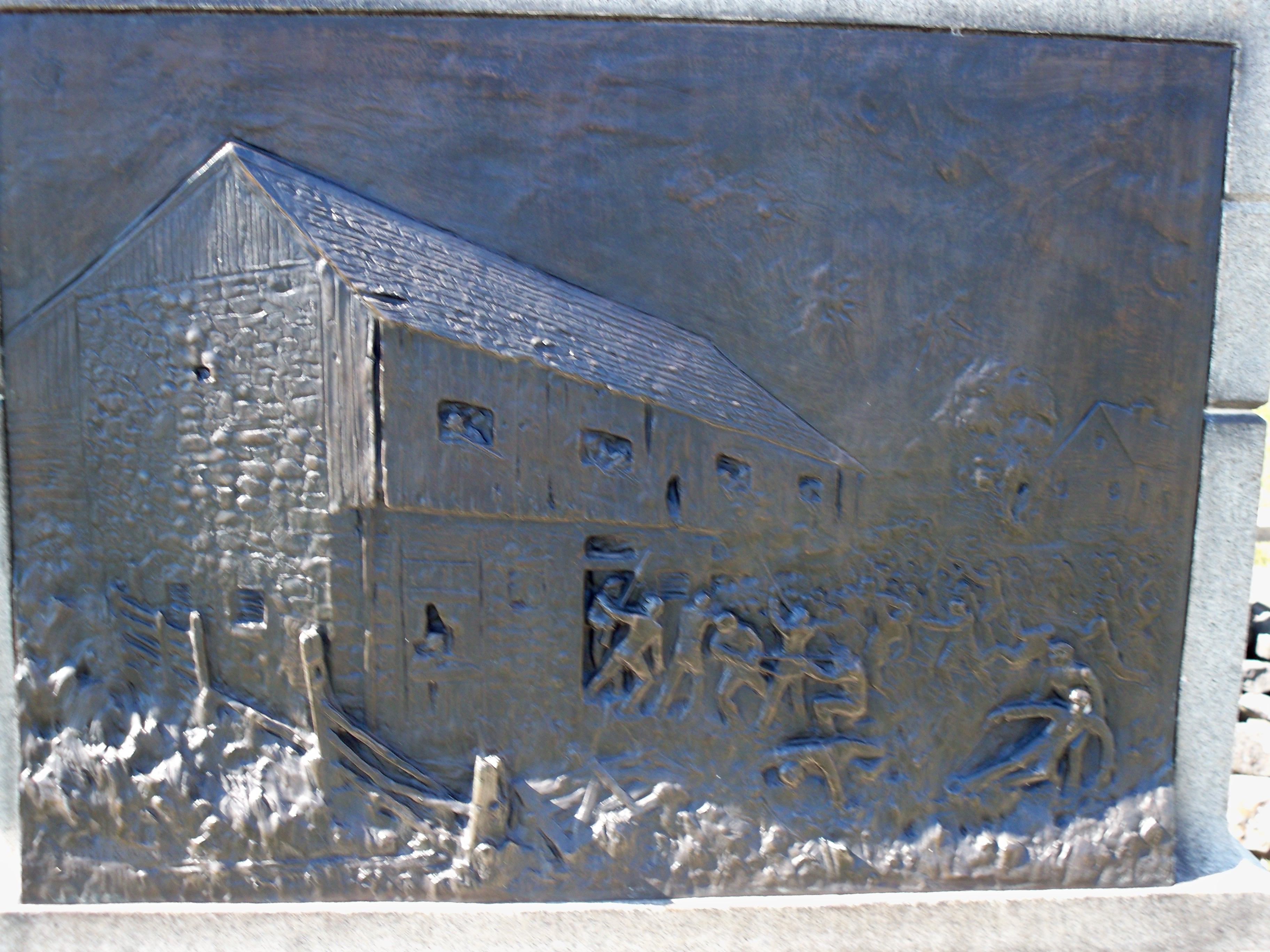 A bas relief carving from a monument to the 12th New Jersey Volunteer Infantry at Gettysburg National Military Park.